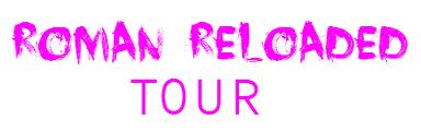 Roman Reloaded Promo Logo